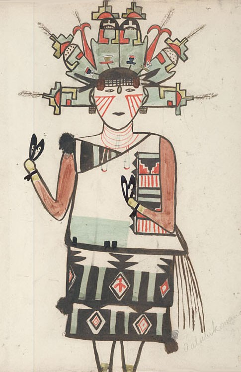 A late-19th C painting of Palahiko Mana katsina, “Water Drinking Woman,” shows her wearing a Tablita headdress with stepped Earth signs and corn ears. Water Drinking Woman seems to be a name for the corn itself, one of many forms of the Corn Maidens. Painting by a Hopi artist for BAE author, likely JW Fewkes